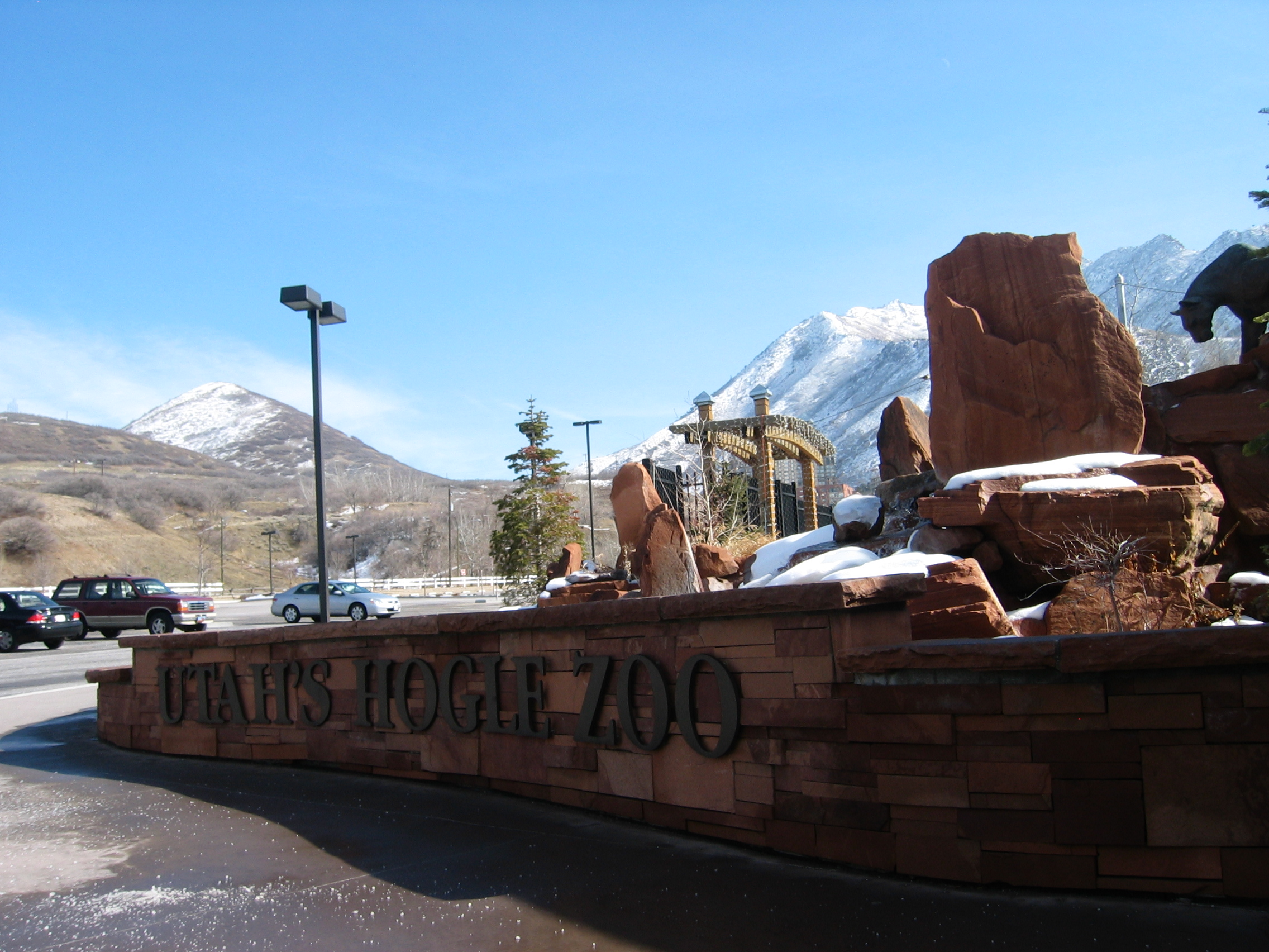 Hogle Zoo in Salt Lake City, Utah. The Mountain Lion sculpture is by Avard Fairbanks.